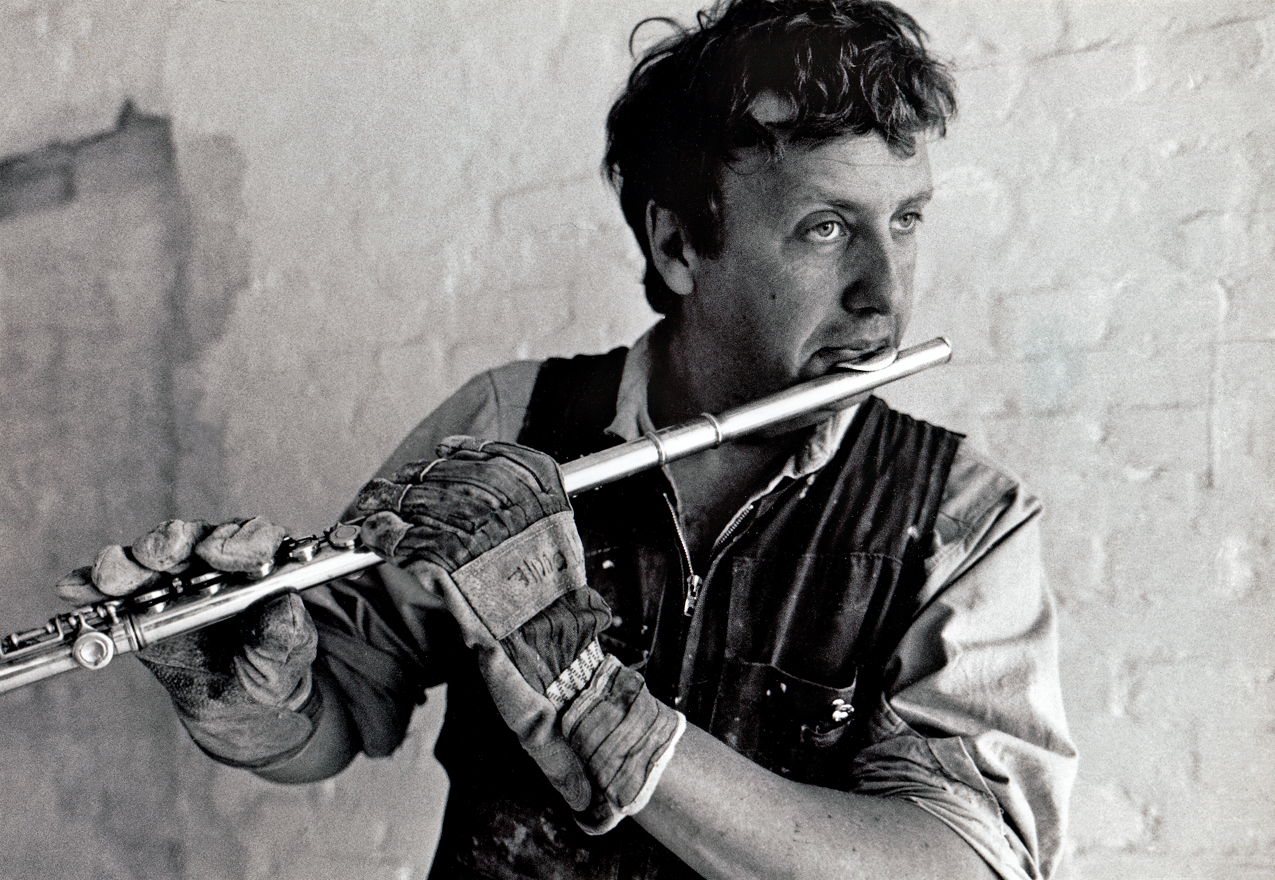 An artisan takes a break at work and playing his Flute. Malmö 1987.